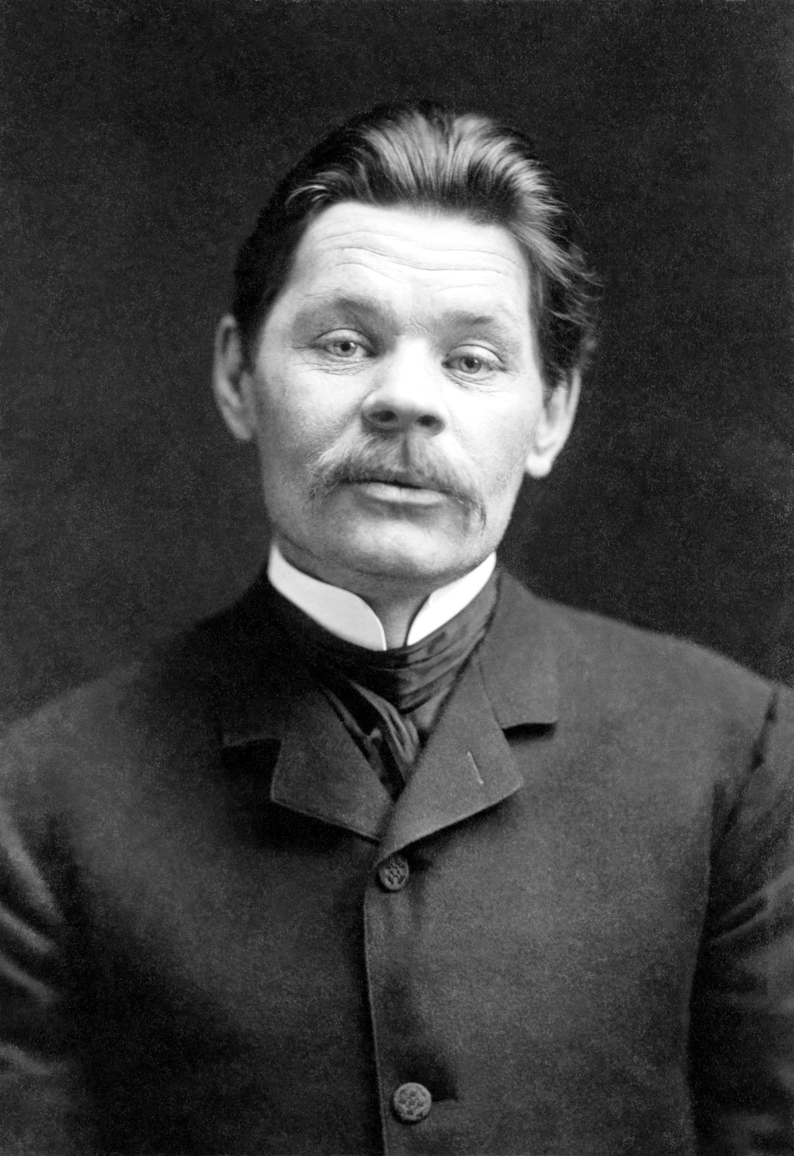 Black and white film copy negative of Maxim Gorky, half-length portrait, facing front by Herman Mishkin, N.Y.